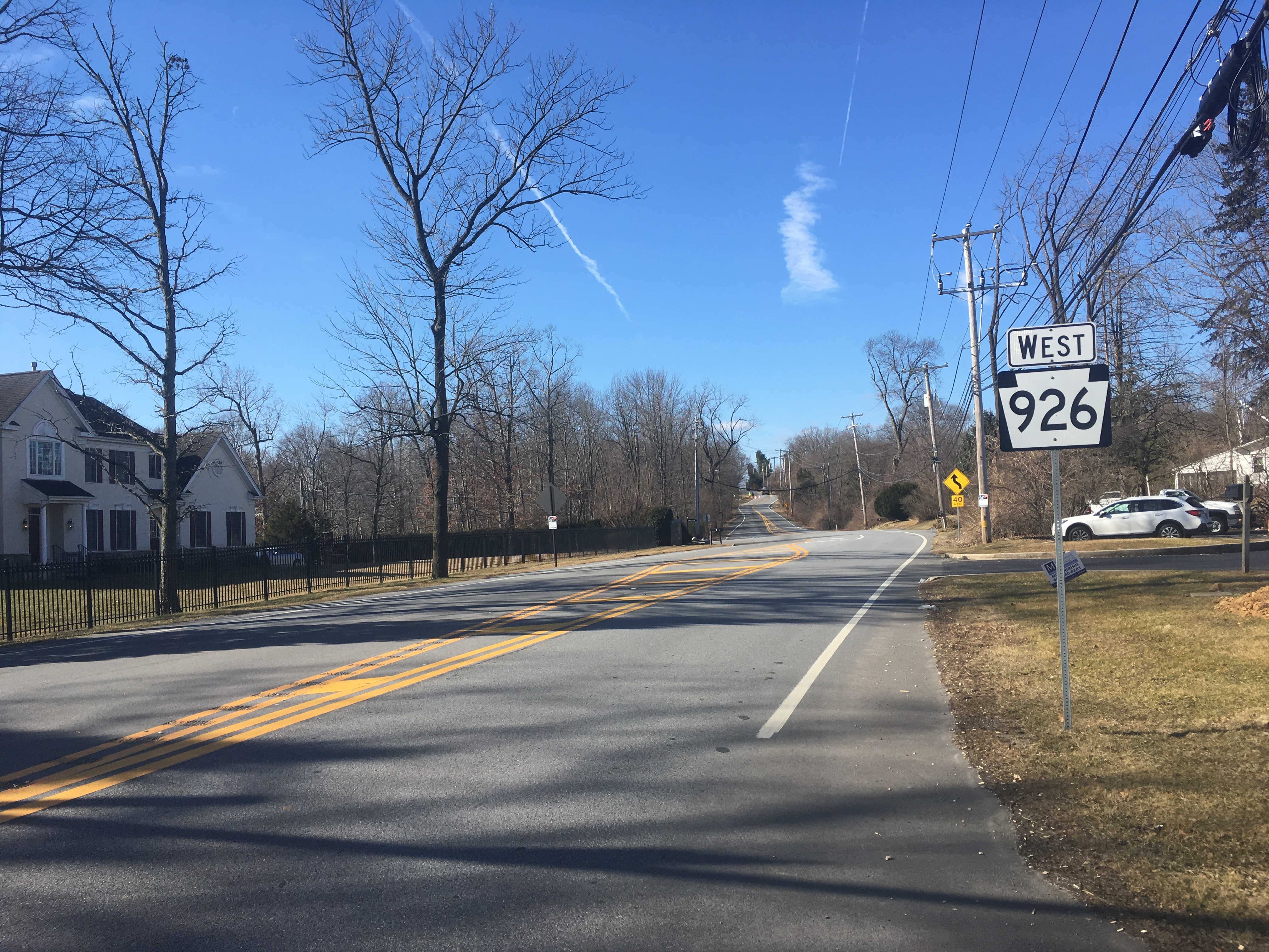 Westbound Pennsylvania Route 926 (Street Road) past its eastern terminus at Pennsylvania Route 3 (West Chester Pike) in Willistown Township, Pennsylvania